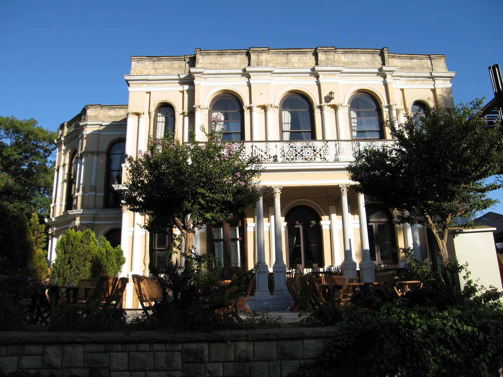 Malta Pavilion within the grounds of Yıldız Park in Istanbul, Turkey.